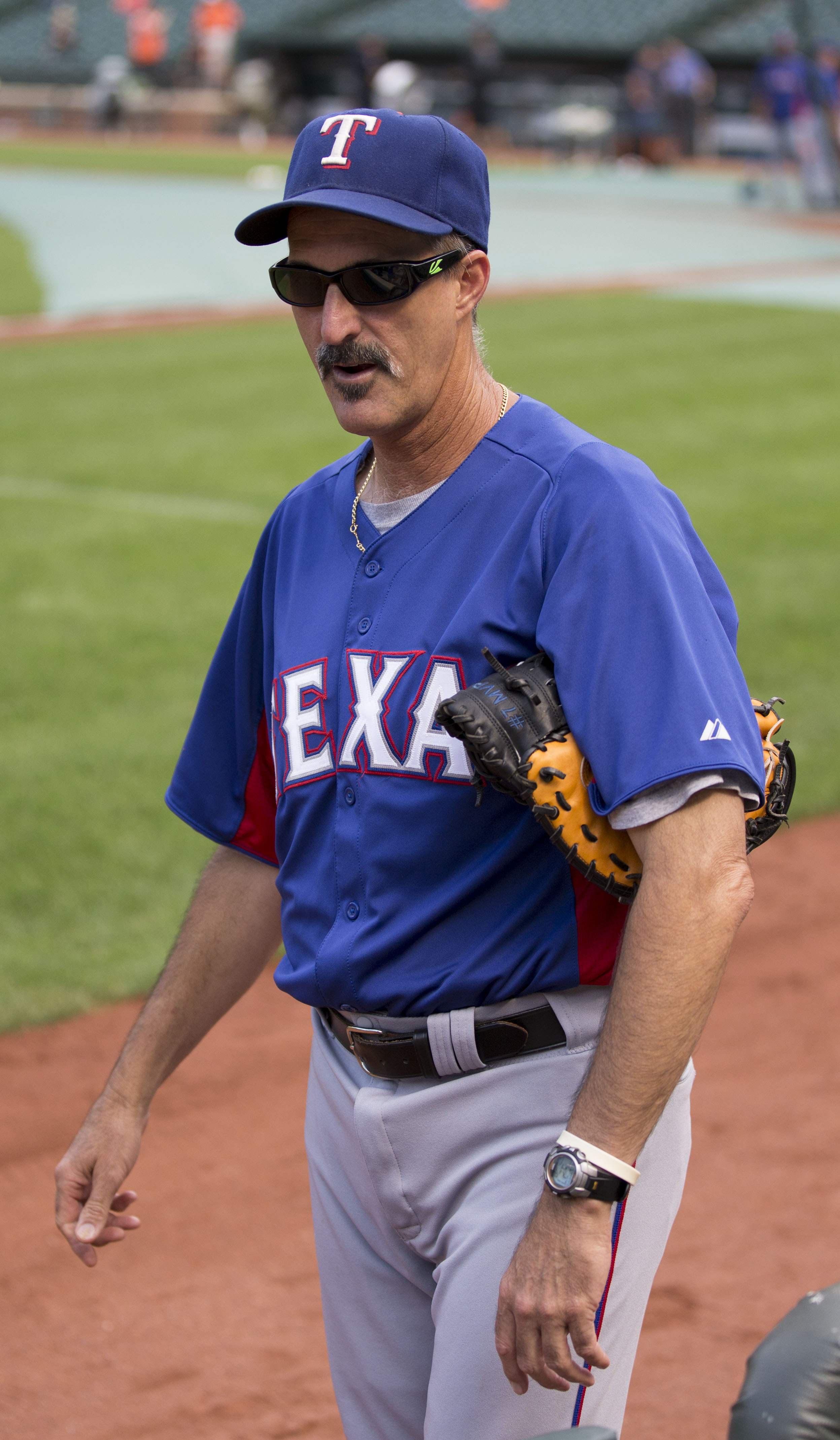 Texas Rangers at Baltimore Orioles July 10, 2013